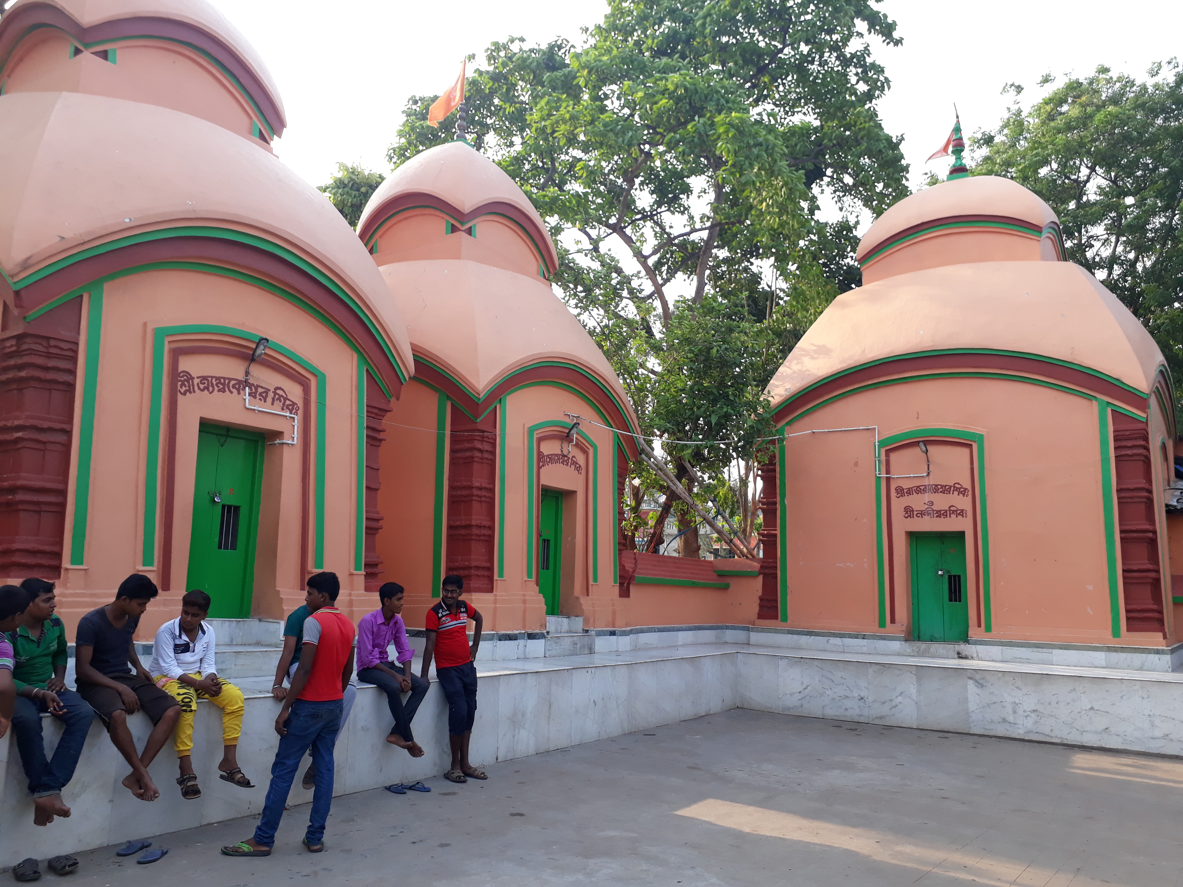 রাজবল্লভী মন্দির প্রাঙ্গন, রাজবলহাট, হুগলী